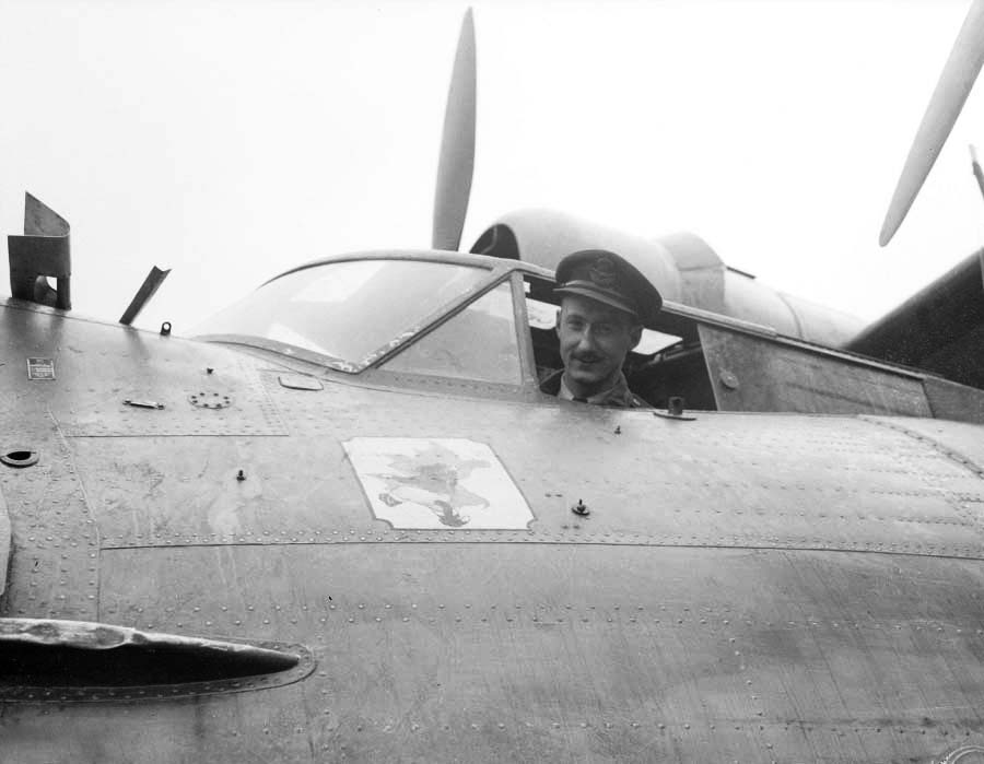 Royal Canadian Air Force Squadron Leader Leonard Birchall, the "Saviour of Ceylon", aboard a Catalina aircraft before being shot down and captured near the island of Ceylon by the Japanese in 1942. Before being shot down, Birchall warned of a Japanese attack on Ceylon.